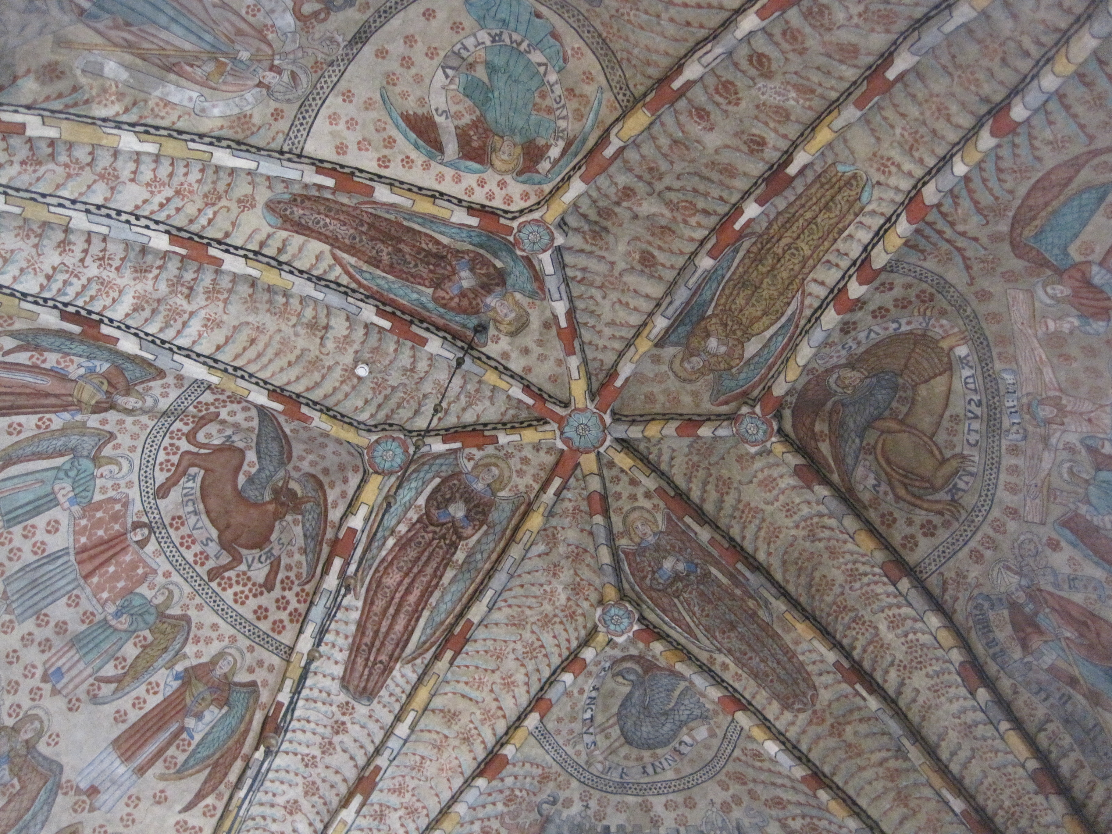 Holy Cross Church, Rauma, Finland check usage